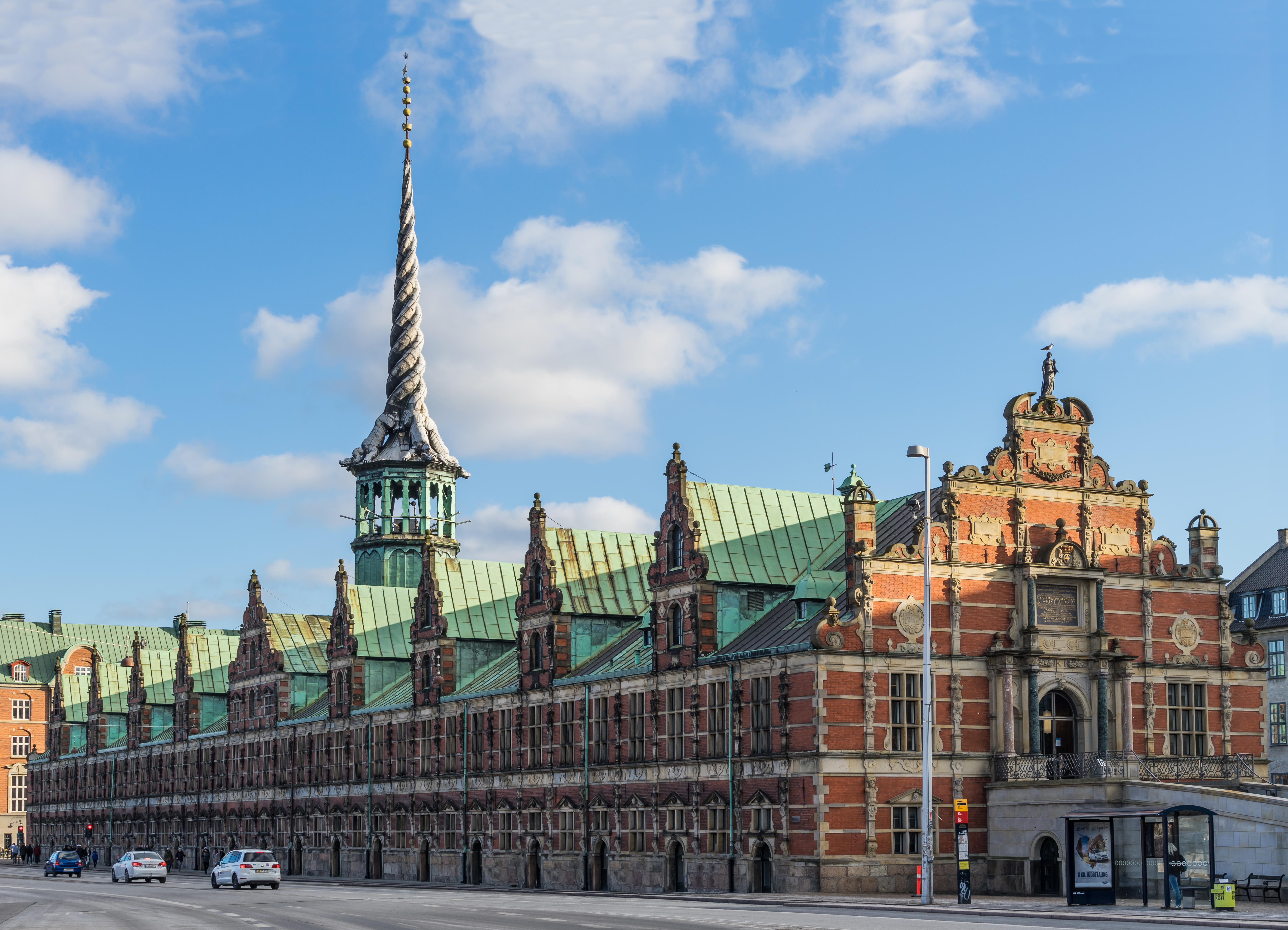 The former Stock-Exchange, Copenhagen, Denmark.